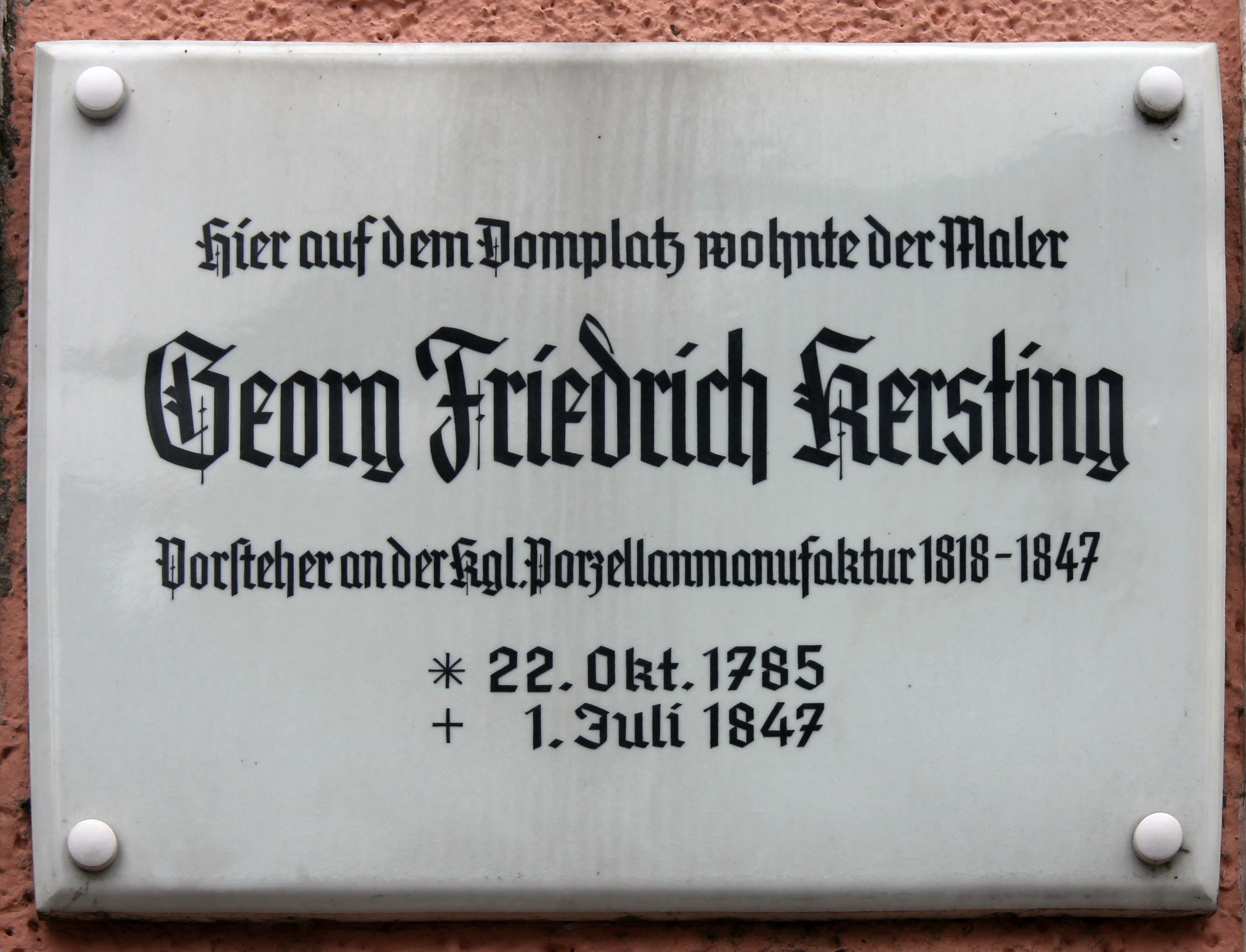 Memorial plaque, Georg Friedrich Kersting, Domplatz, Meißen, Germany